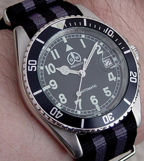 Ollech & Wajs M1 dive watch on an aftermarket NATO strap featuring a "James Bond-style" black and gray stripe pattern.